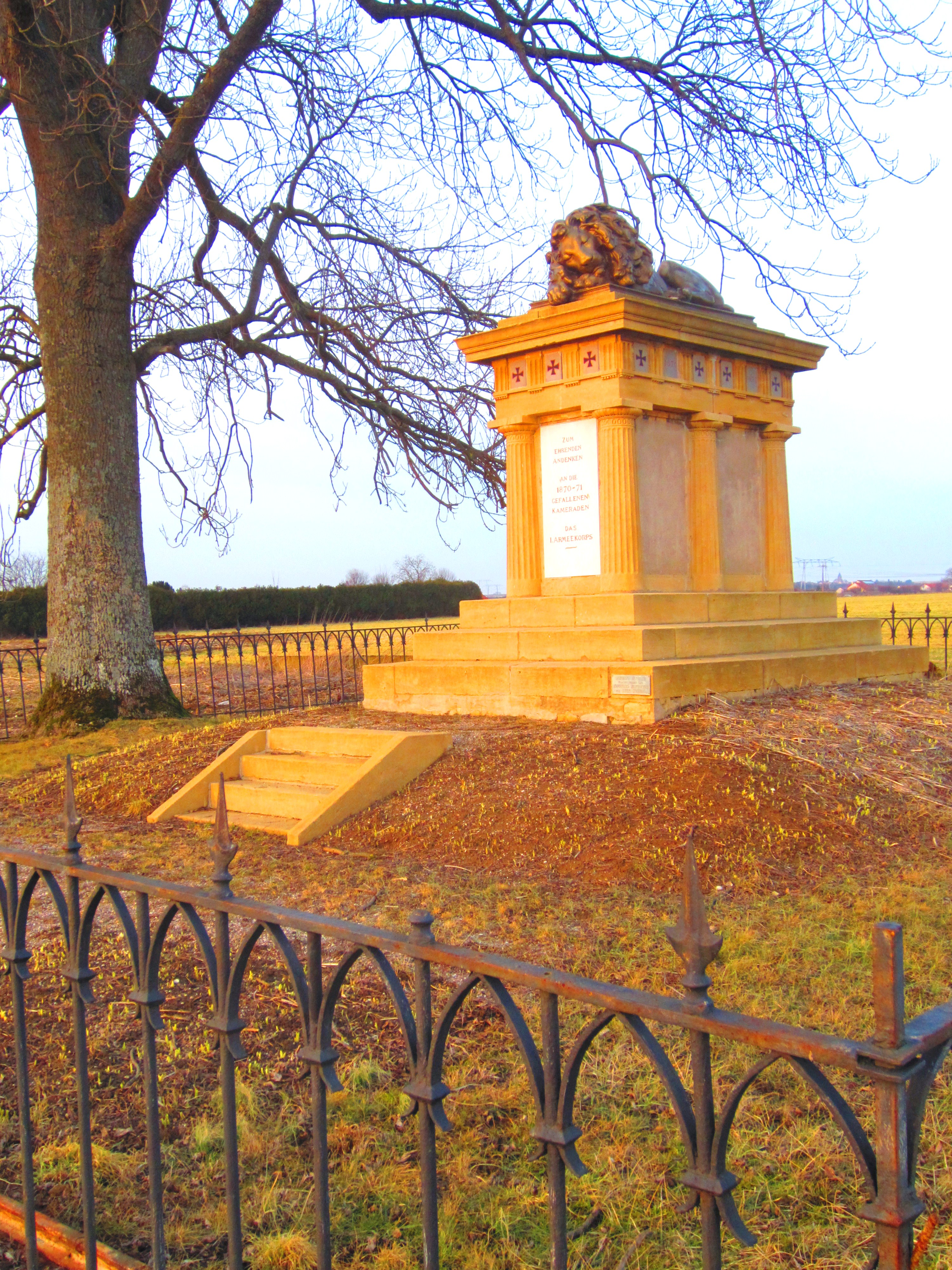 Retonfey memorial war 1870